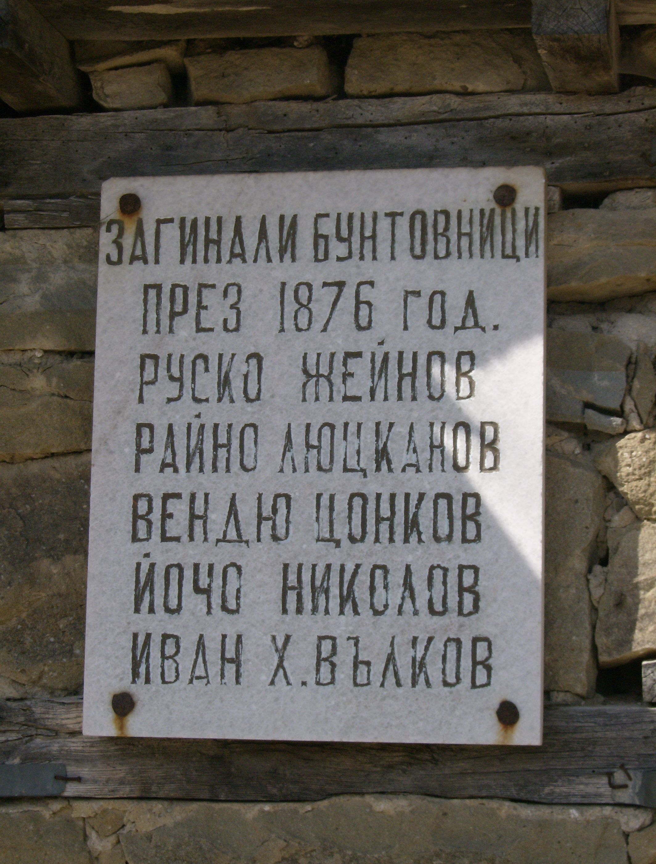 Zheravna